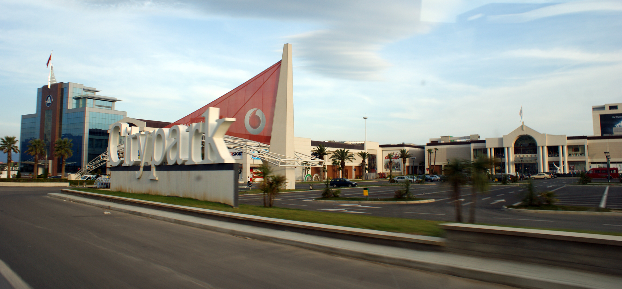 Citypark Shopping Mall in Tirana, Albania, on the motorway to Durrës